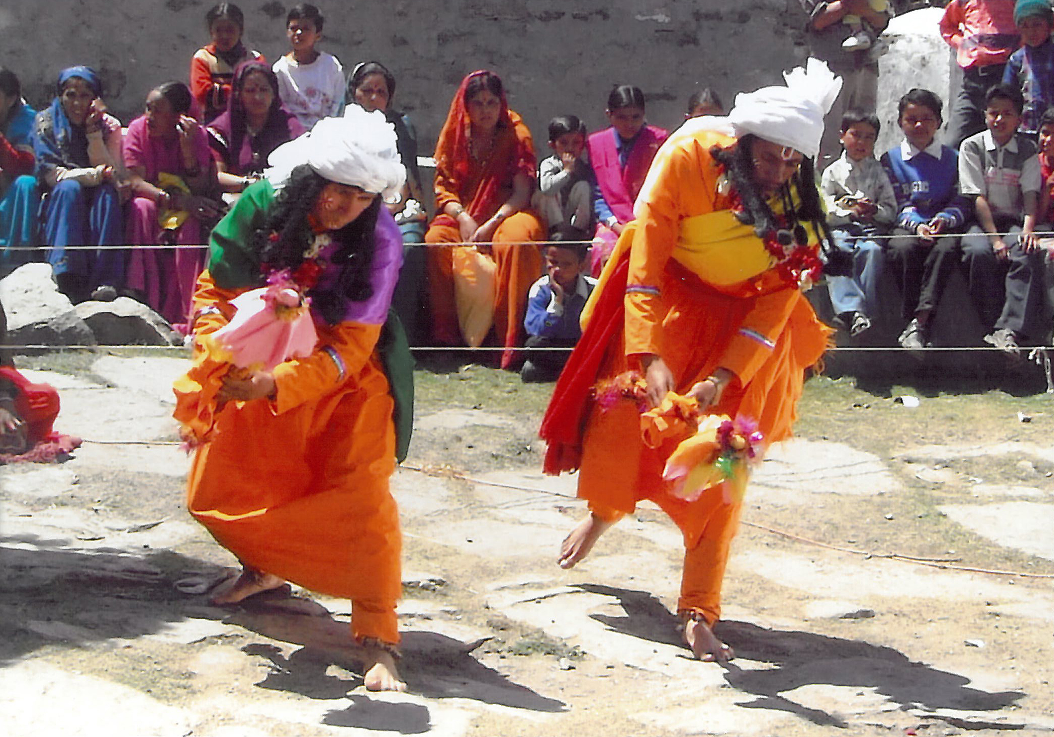 Ramman, religious festival and ritual theatre of the Garhwal Himalayas, IndiaRomână: Ramman, festival religios și teatru ritualic în munții Himalaya din diviziunea Garhwal, statul Uttarakhand, India